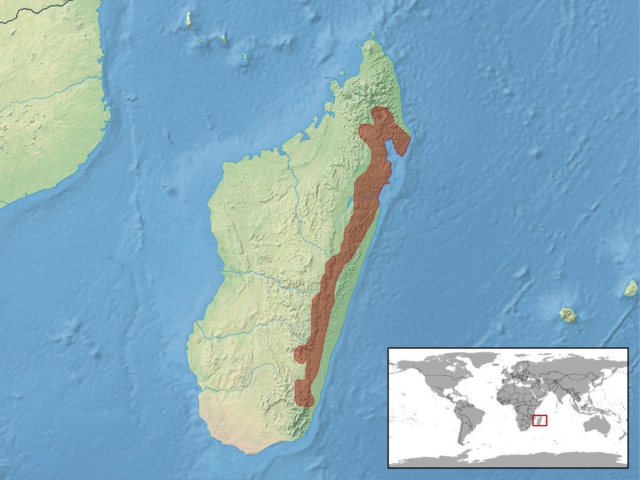 geographic distribution of Brookesia superciliaris (Native: Madagascar)